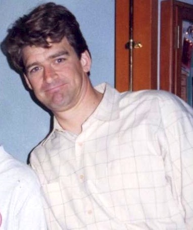 Jeff Martin in 1994. cropped version of Image:Simpsons writers1.jpg